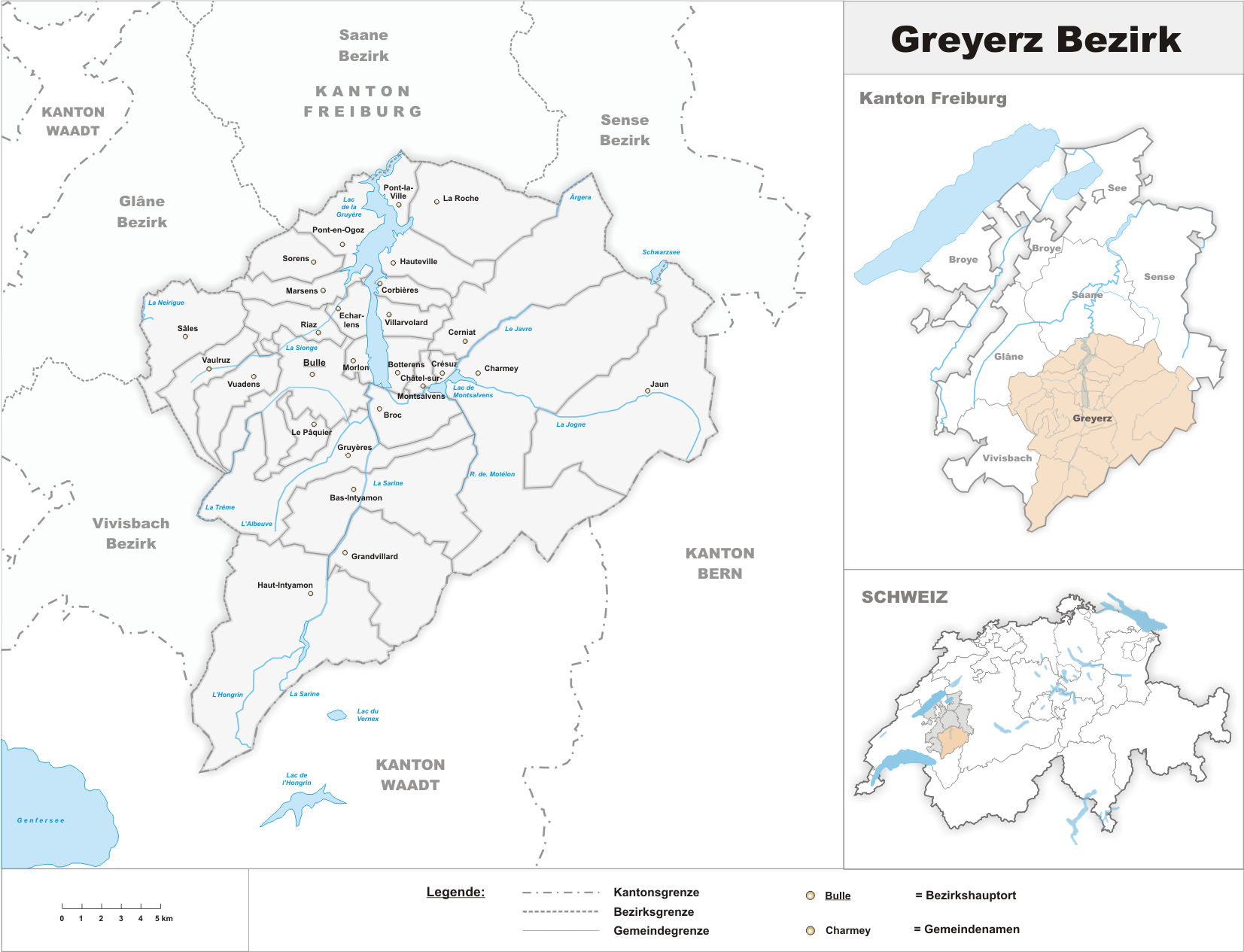 Municipalities in the district of Greyerz